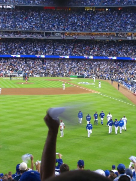 A Dodger fan waves a rally towel during game 3 of the 2008 NLCS versus the Phillies